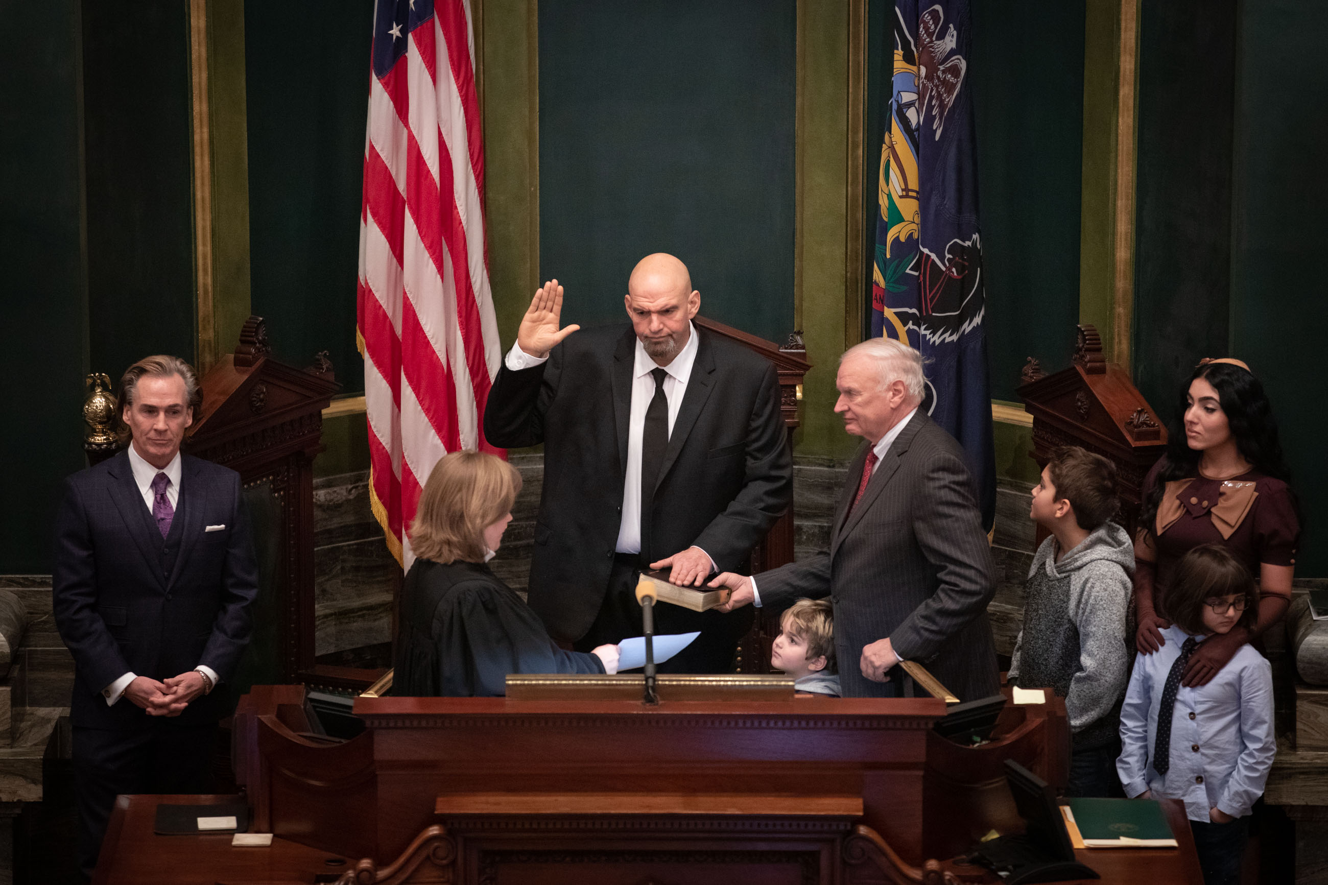 January 15, 2019 Harrisburg, PA